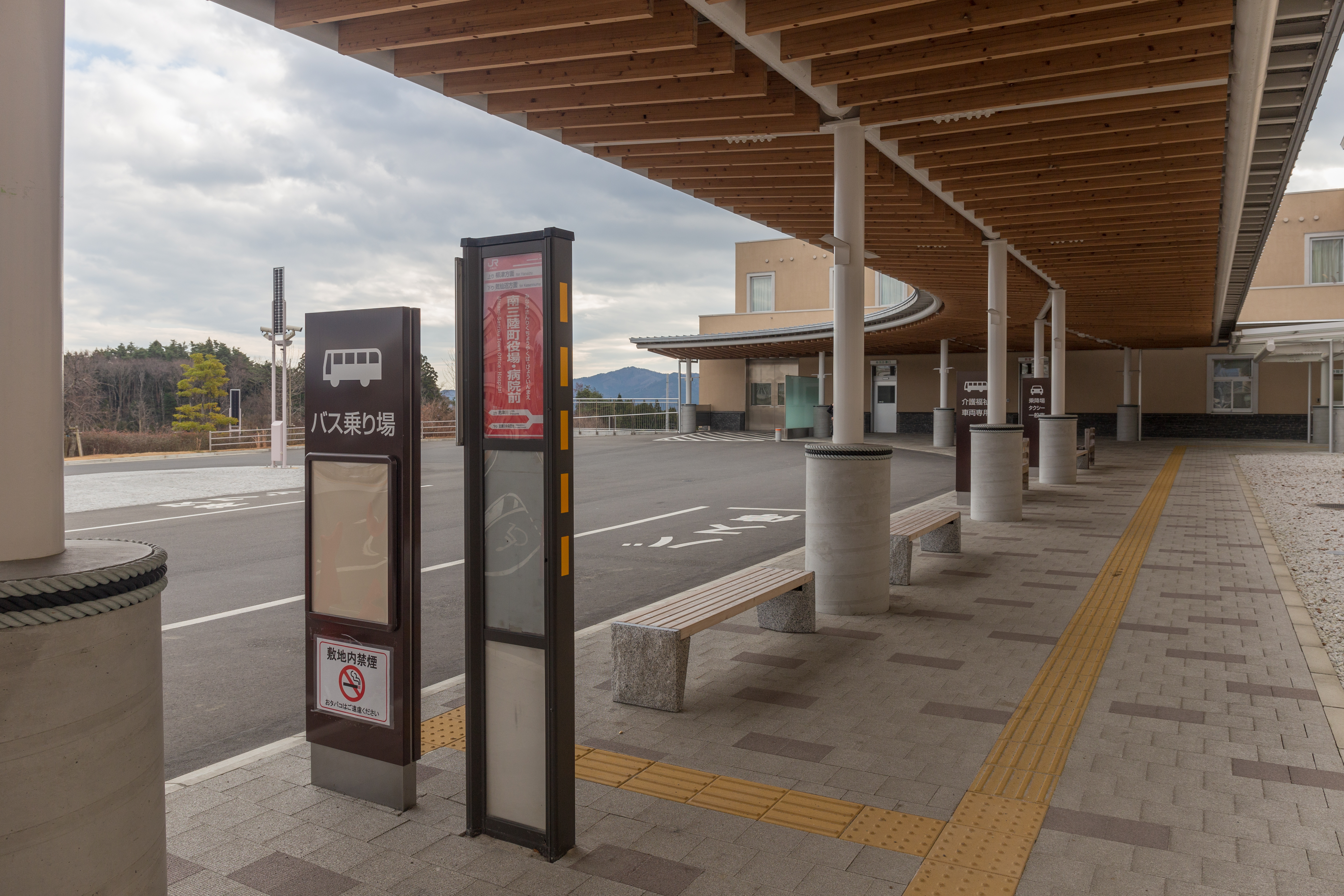 East Japan Railway (JR East) Kesennuma Line BRT Minami-Sanriku Town Office / Hospital Station in Minamisanriku Town, Miyagi Prefecture, Japan